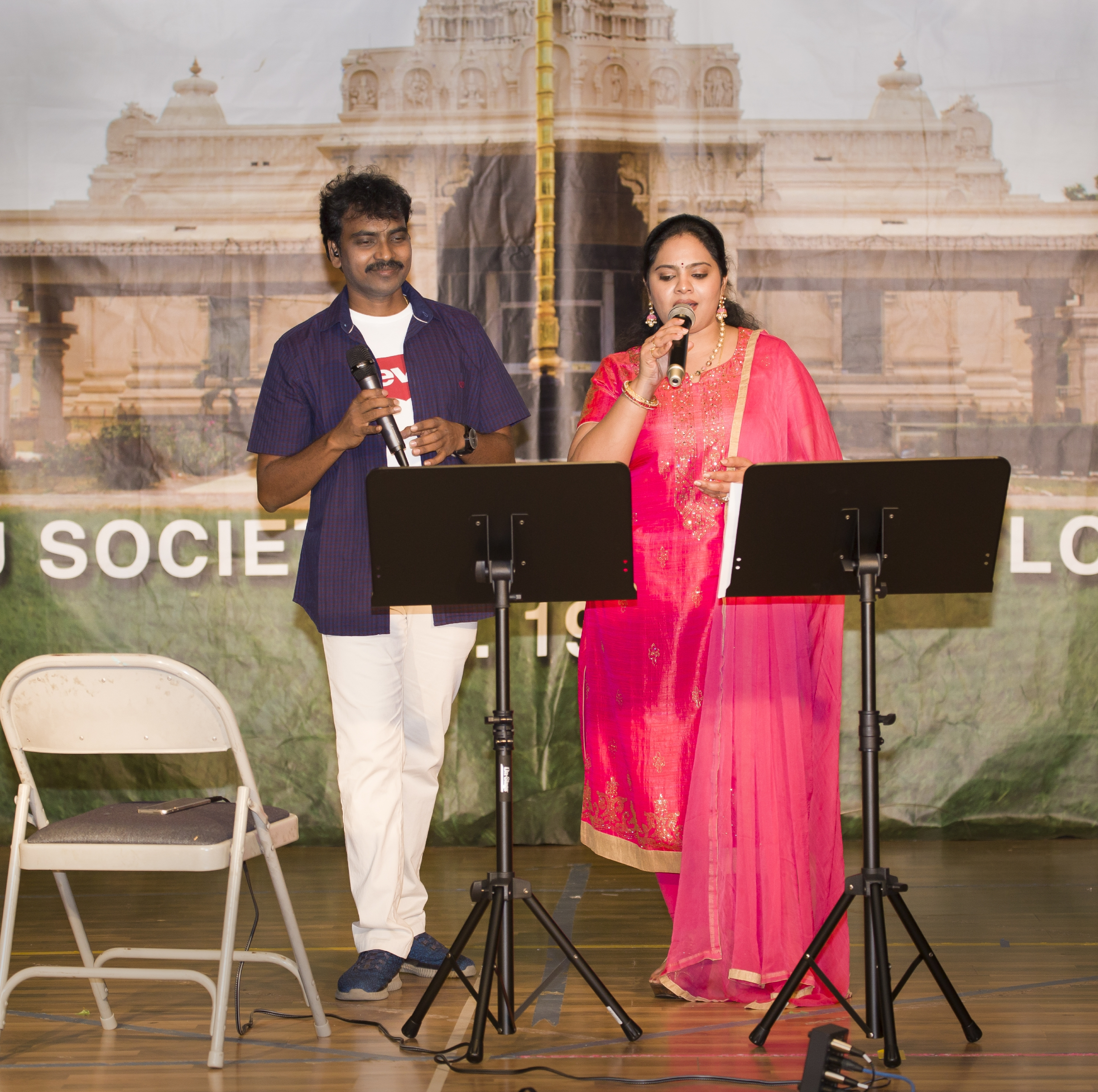 Singer Mallikarjun and Gopika Poornima performing at Florida